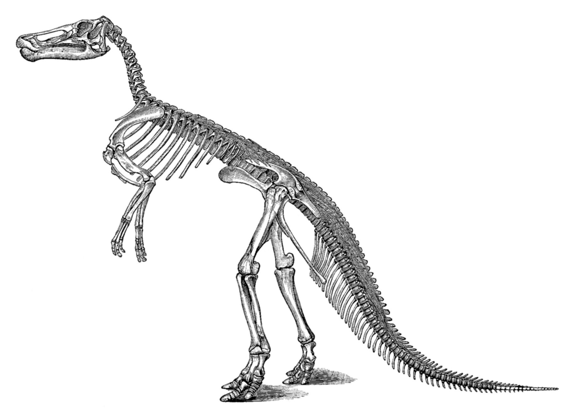 Historical drawing of skeletal reconstruction of Edmontosaurus annectens (here figured as “Claosaurus annectens”).